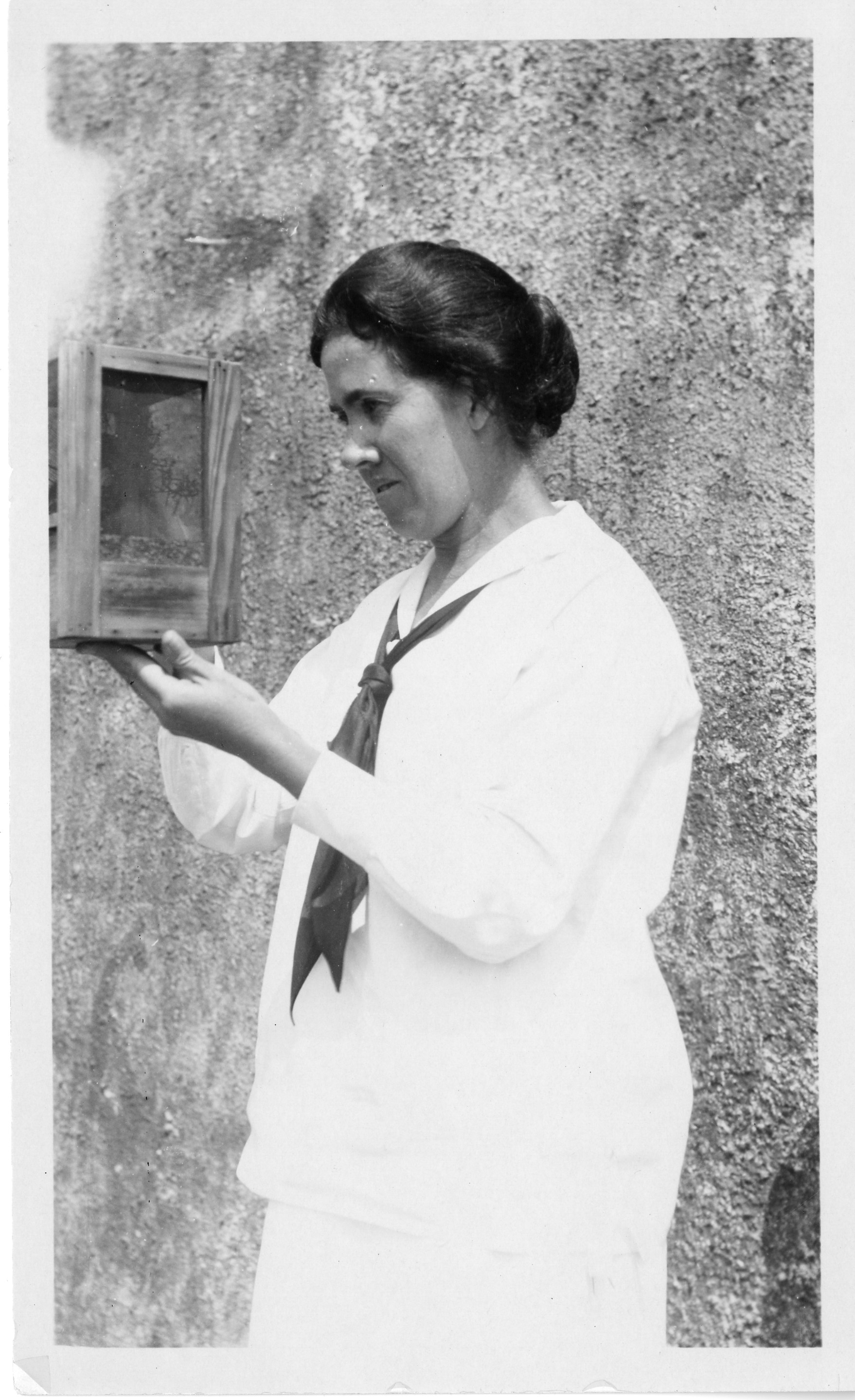 Description: Estrella Eleanor Carothers (1883-1957) taught at the University of Pennsylvania from 1913-1933, and then continued her groundbreaking genetics research on the order Orthoptera at the University of Iowa from 1935 to 1941. Creator/Photographer: Unidentified photographer Medium: Black and white photographic print Persistent URL: [1] Repository: Smithsonian Institution Archives Accession number: SIA2008-0358